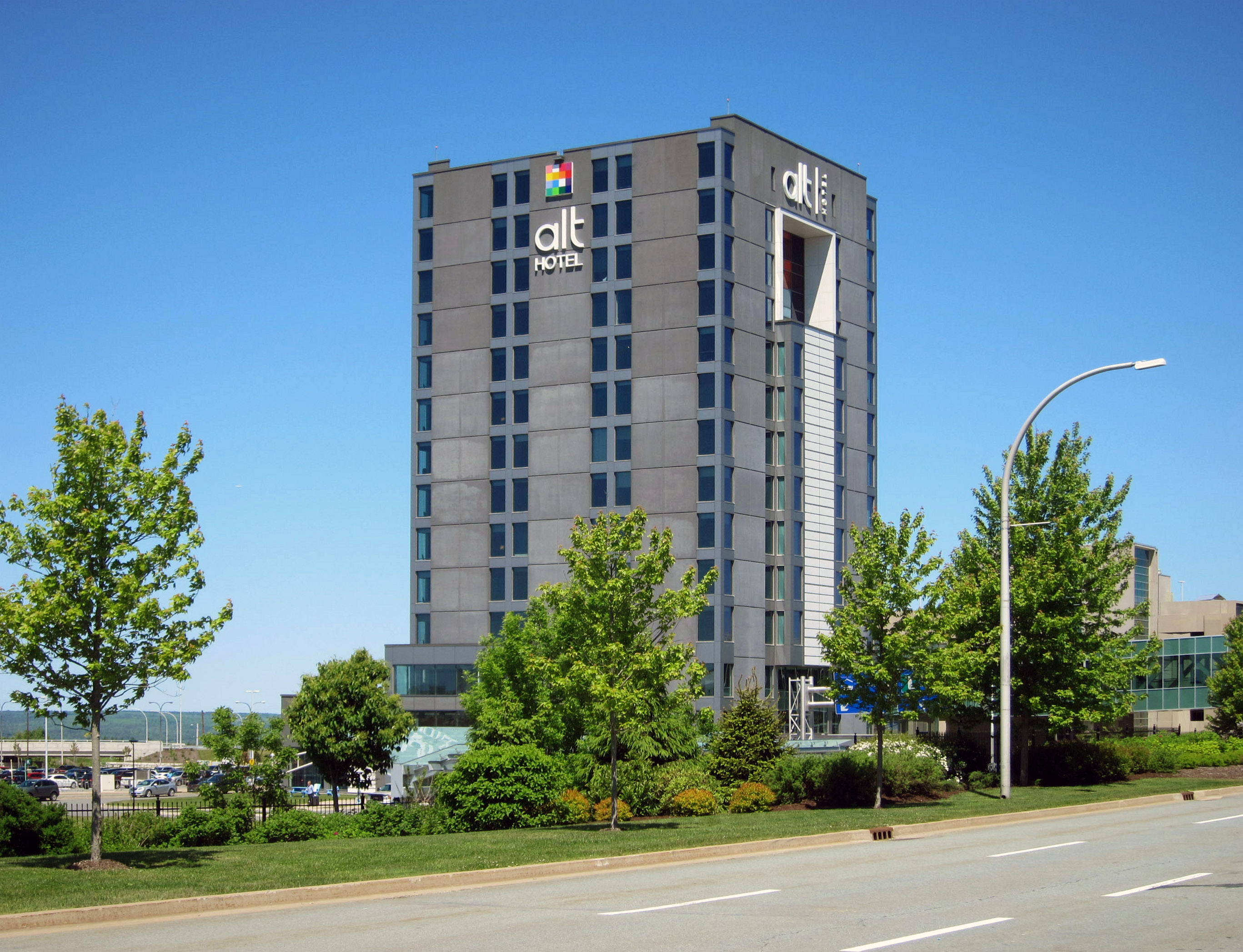 The Alt Hotel at Halifax Stanfield International Airport in June 2016.